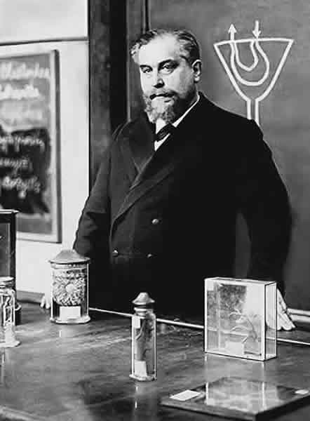 Grigory Kozhevnikov (1866 - 1933), professor at Moscow University